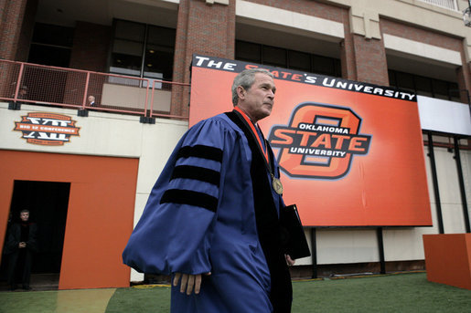 Former President Bush Delivers Commencement Address at Oklahoma State University